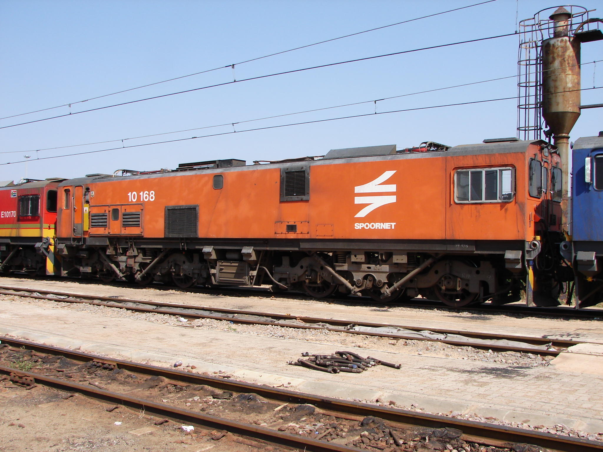 Spoornet Class 10E1 Series 2 no. 10-168Builder's Number: GEC 5781Location: Pyramid South, Gauteng